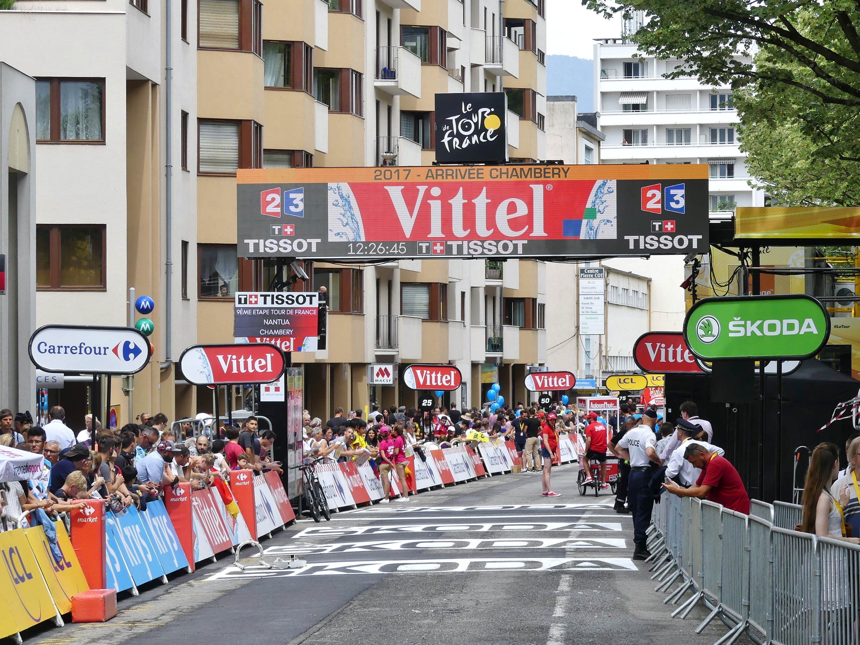 Sight, at noon, of the 9th step of Tour de France 2017 finish line, in Chambéry, Savoie, France.